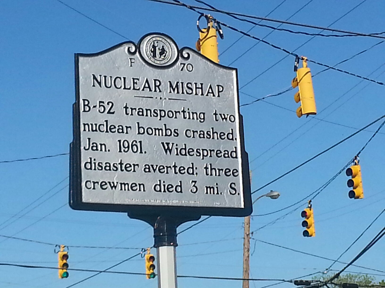 This is a marker in Eureka, documenting the 1961 Goldsboro B-52 crash, when a stricken B-52 dropped two nuclear bombs near Faro, in January 1961. What the marker doesn't mention is that one of the two atomic bombs is still there...